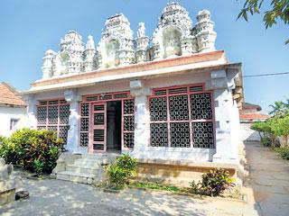 Dallina Vardaman Mahaveera Thirtankara Jain Basadi/temple is very ancient temple built by Hoysala King Narasima I (1141 AD –1173).